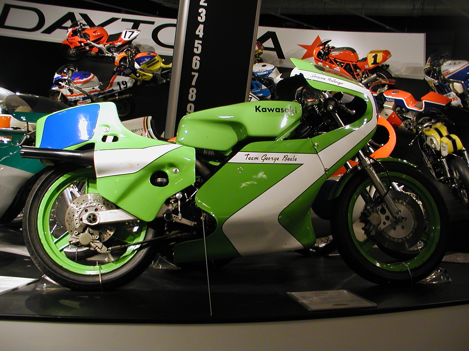 Barber Motorcycle Museum - Oct 22 2006 (145) 1975 Kawasaki KR350 More Description is here